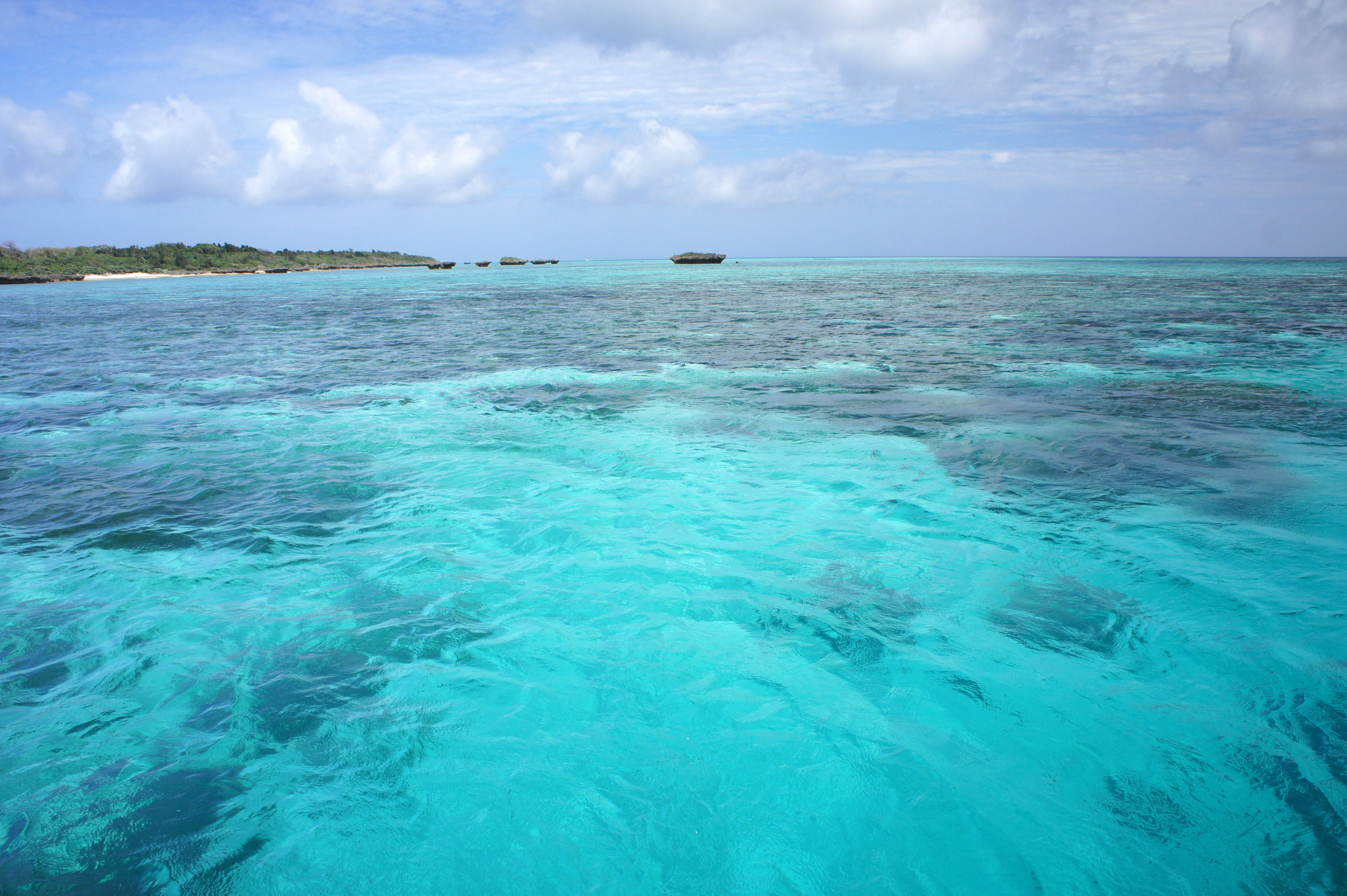 Kabira Bay of Ishigaki Island in Ishigaki City, Okinawa Prefecture, Japan. It is one of the Japan's Places of Scenic Beauty.